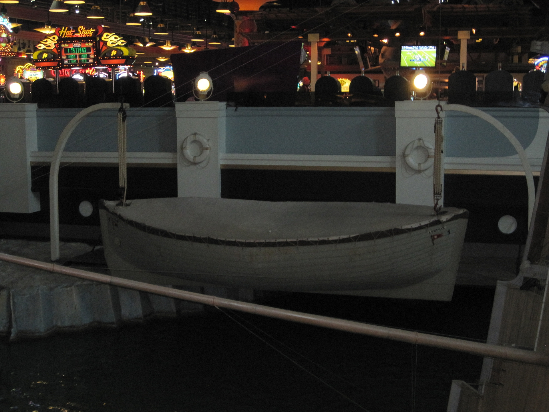 Hollywood Memorabilia Exhibit at the Hollywood Casino in Tunica, Mississippi. Lifeboat #1 from the movie "Titanic"